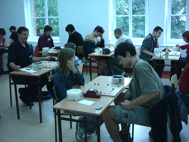 European Go Congress. Photograph: Andre Engels, July/August 2004.